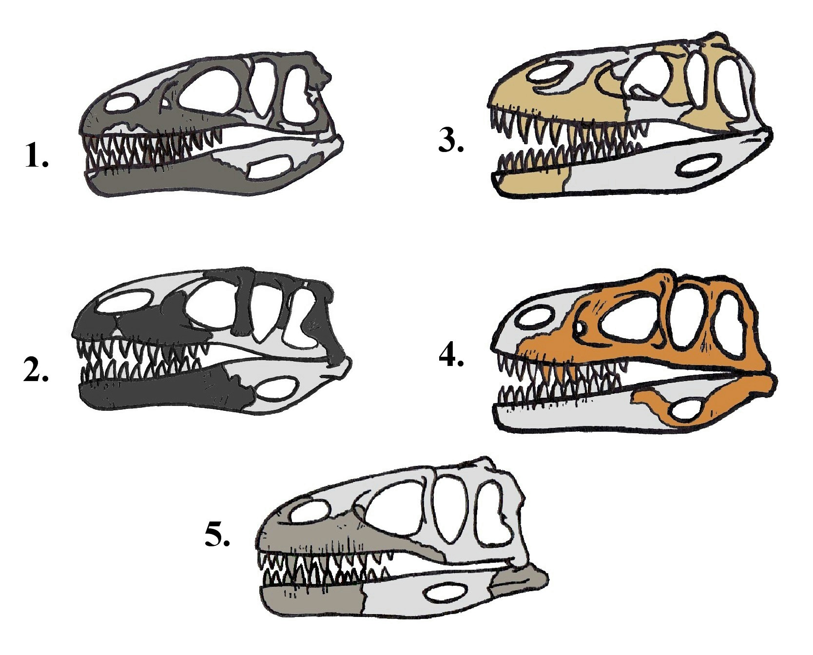 Illustrated diagram of skulls from theropod dinosaurs within the family Megalosauridae. 1. Dubreuillosaurus, found in France, dated to 166 million years old. 2. Eustreptospondylus, found in England, dated to 162 million years old. 3. Torvosaurus, found in Colorado ( USA ) and Portugal, dated to 150 million years old. 4. Afrovenator, found in Niger, dated to 166 million years old. 5. Megalosaurus, found in France and England, dated to 166 million years old. References (Dubreuillosaurus). spinosauridae.fr.gd/"Origin and evolution of Spinosauridae". and (Eustreptospondylus). and (Torvosaurus). and (Afrovenator) (Megalosaurus).